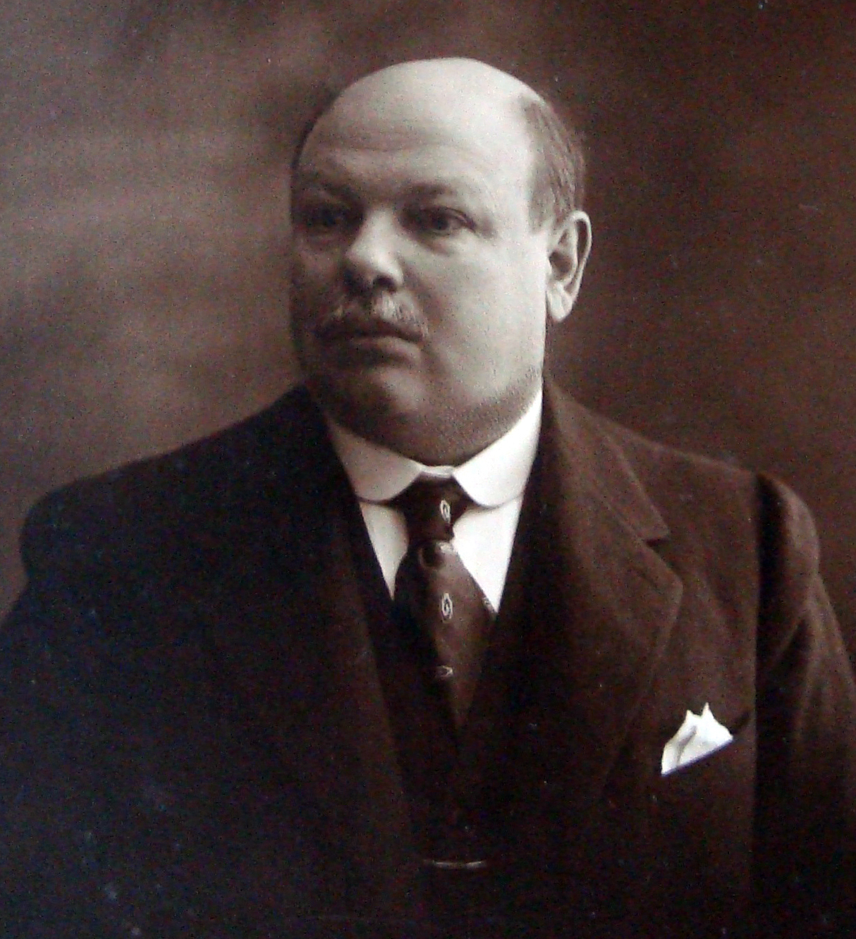 Giovan Pietro Grimaldi di Calamezza